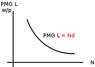 Marginal product of labor curve